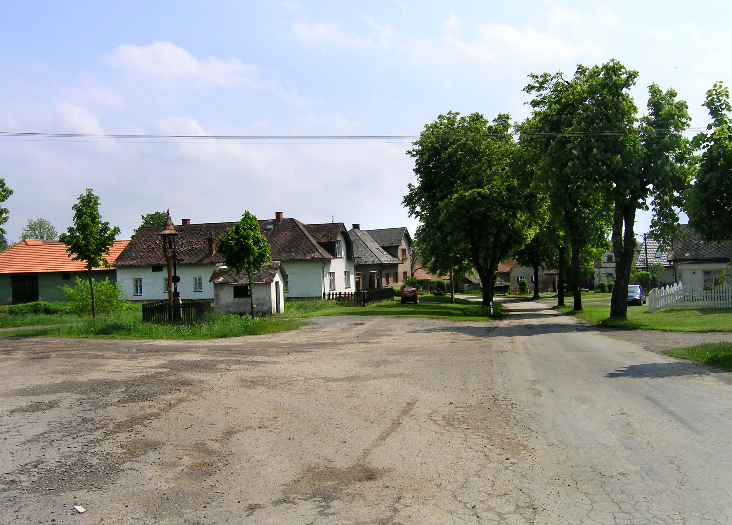 Common in Ždírec village, Czech Republic